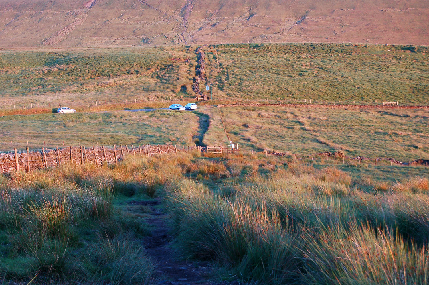 By me, released